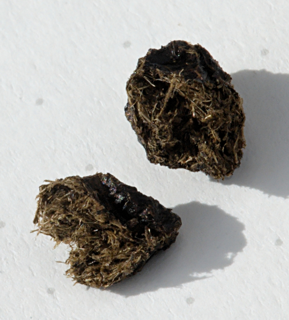 Droppings of a feral rabbit (Oryctolagus cuniculus), Auvergne, France. Distance between dots on the paper are 0.5 cm.